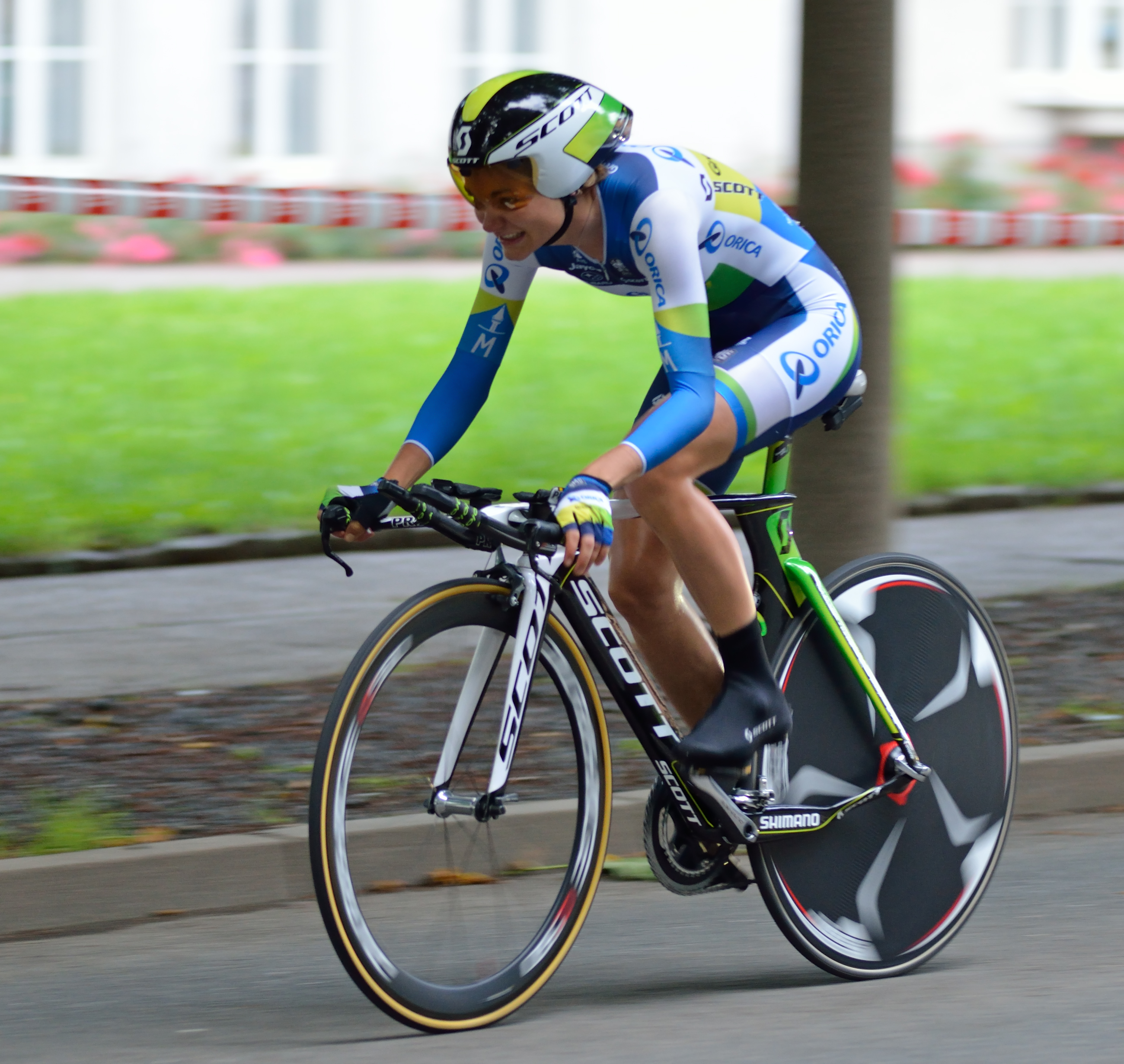 Claudia Häusler from the Orica-AIS team during the Women's Tour of Thuringia 2012 in Zwickau, Germany.